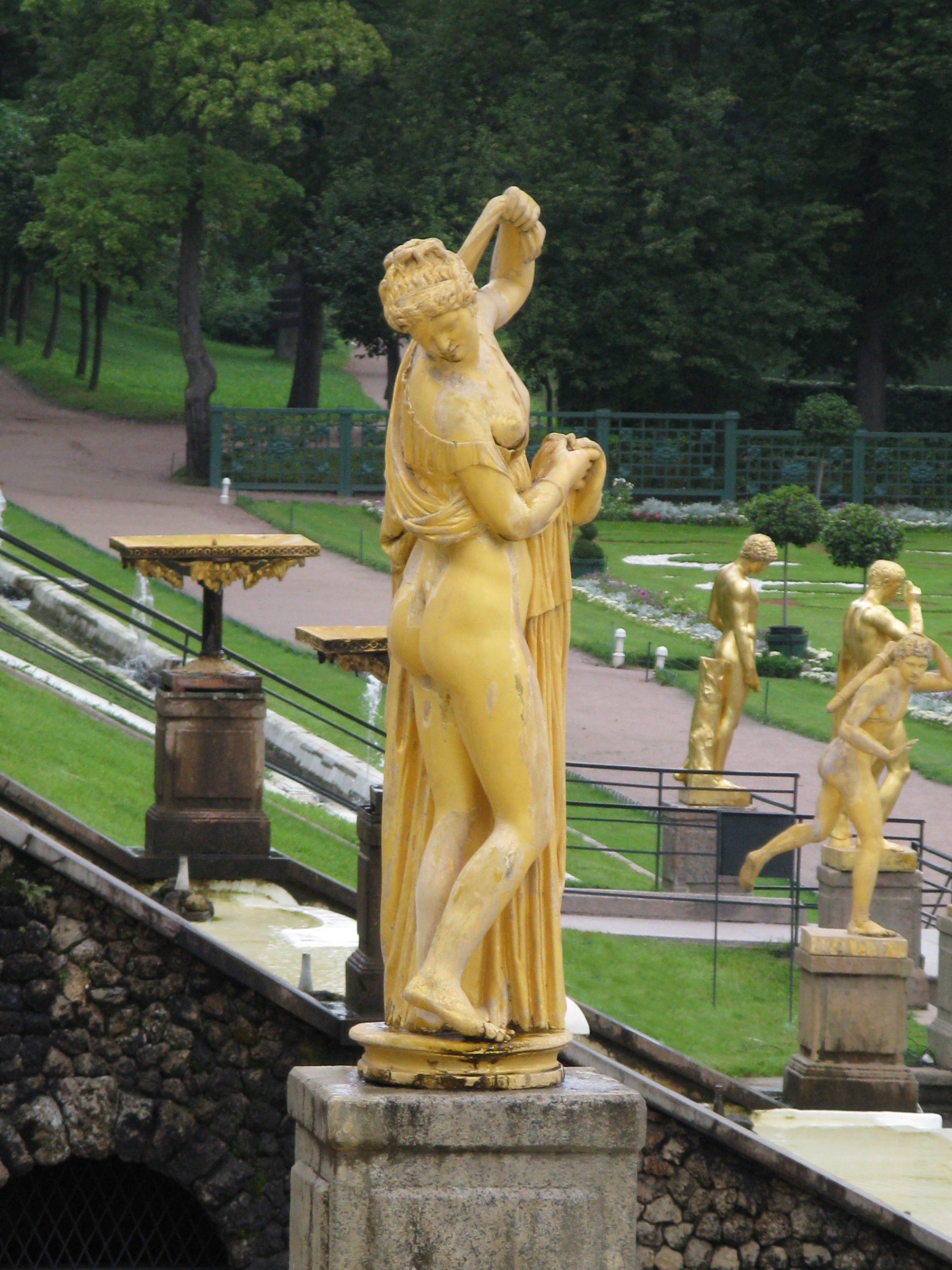 The Aphrodite Kallipygos at The Eastern Cascade Stairway of The Great Cascade in Peterhof.